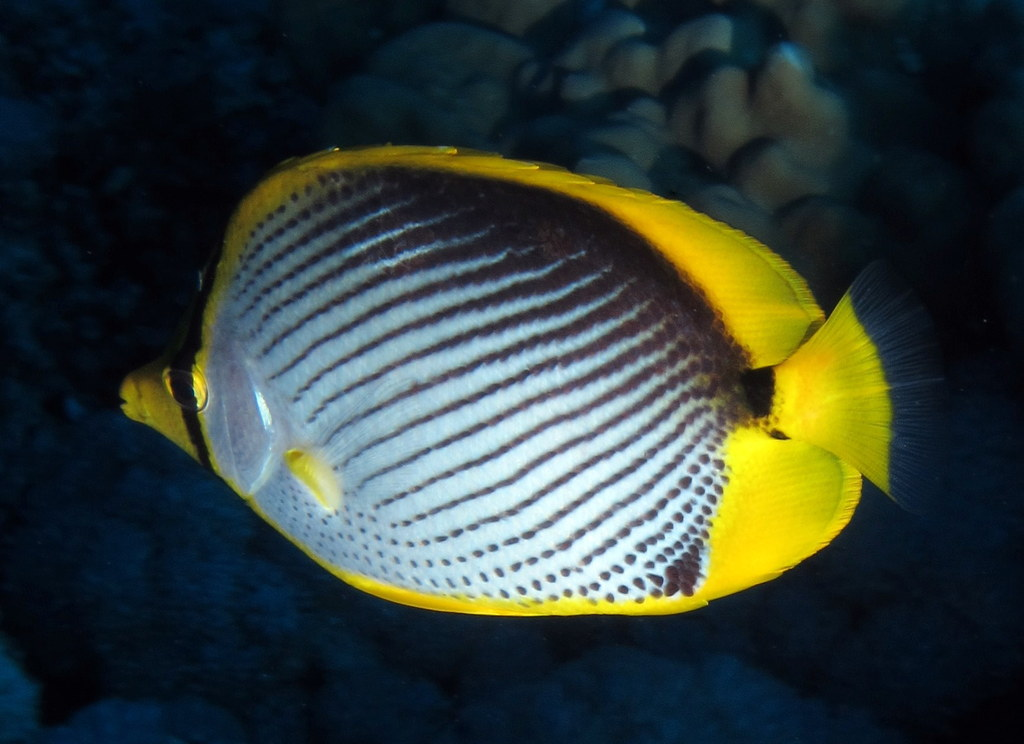 Black-backed Butterflyfish or blackback butterflyfish - Chaetodon melannotus - at Little Brother, Red Sea, Egypt #SCUBA